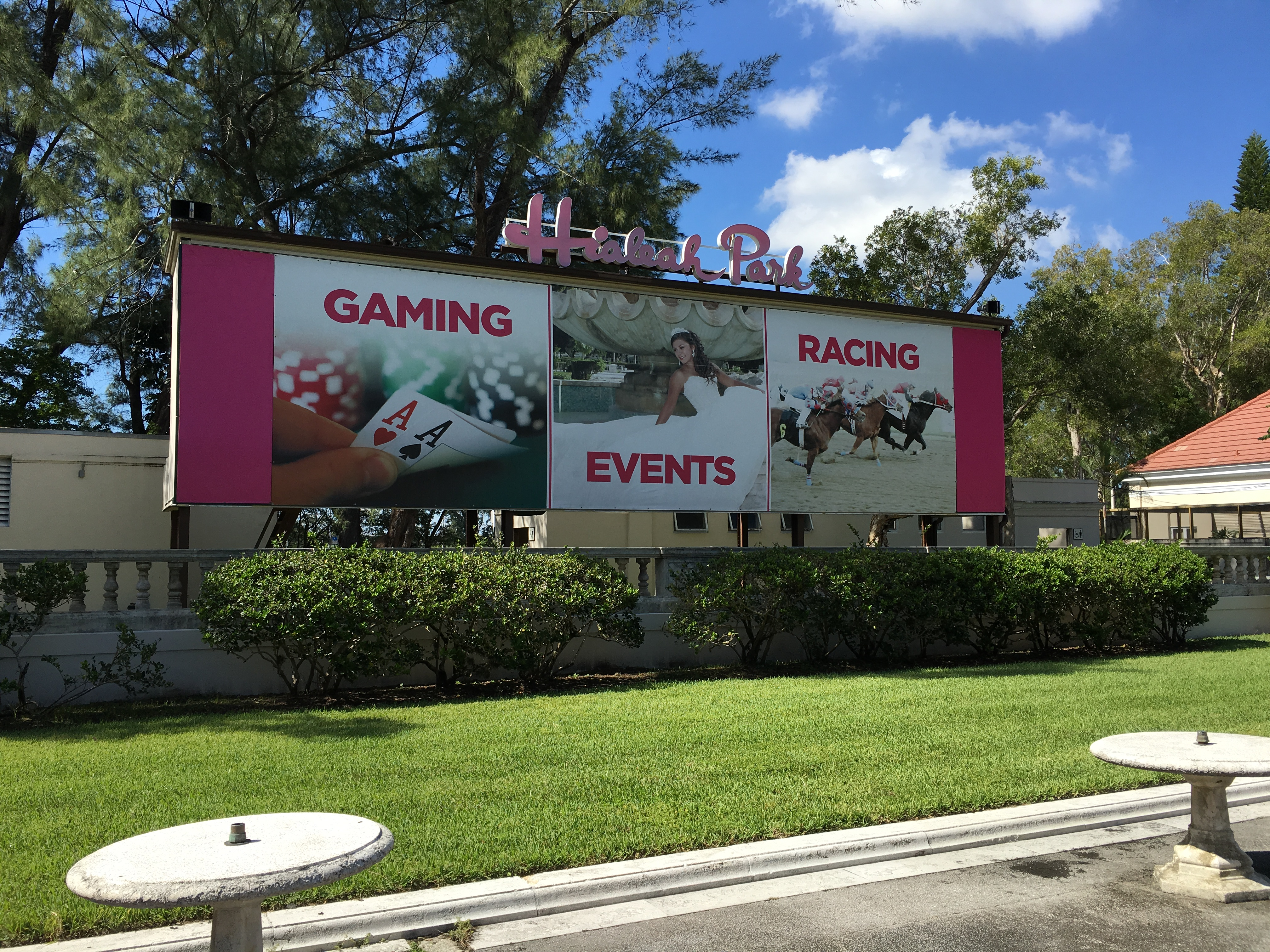 Sign at edge of Hialeah Park Race Track, now with gaming.